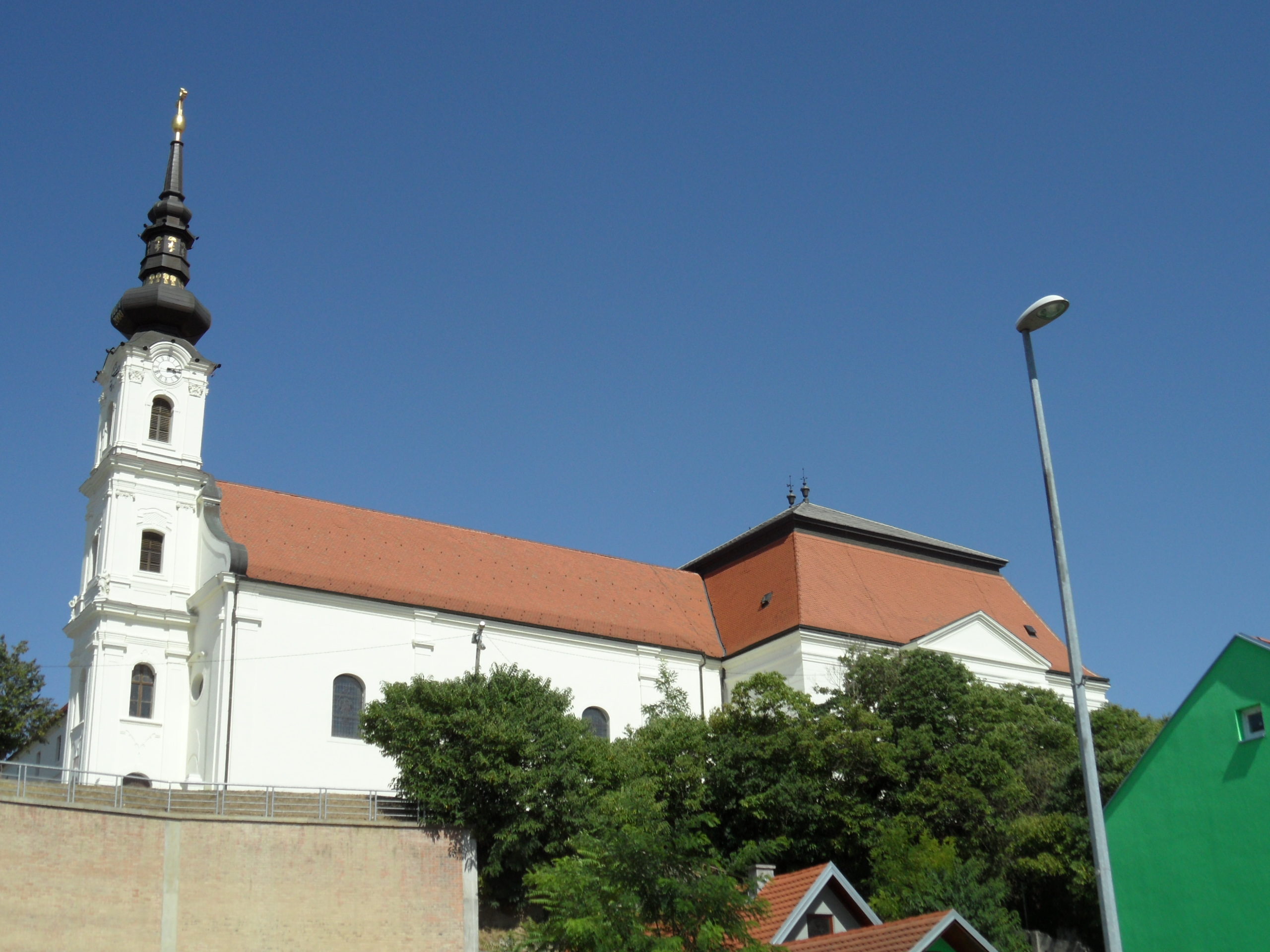 Vukovar, Croatia, monastery church